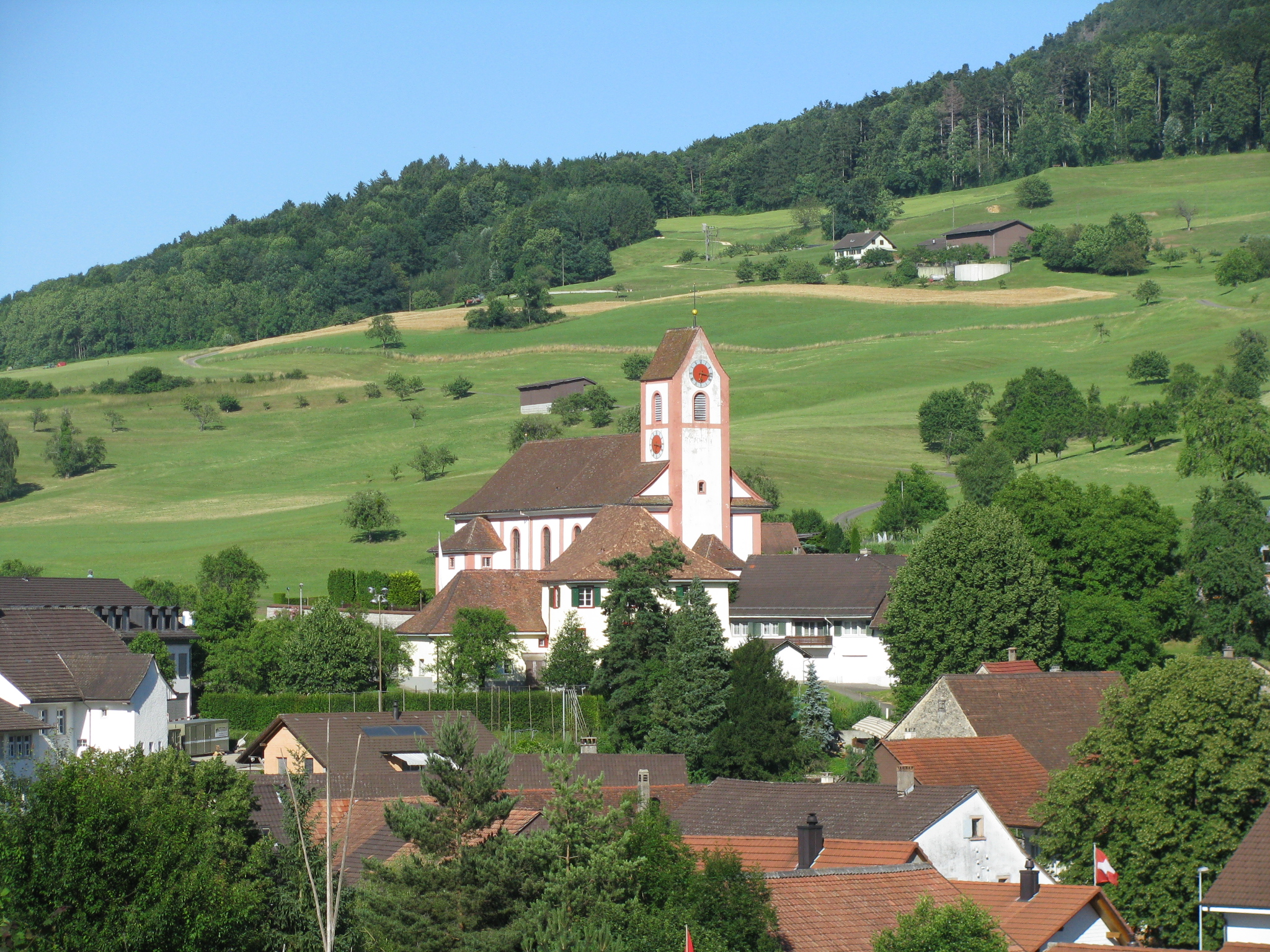 Roman Catholic church St. Michael in Wegenstetten